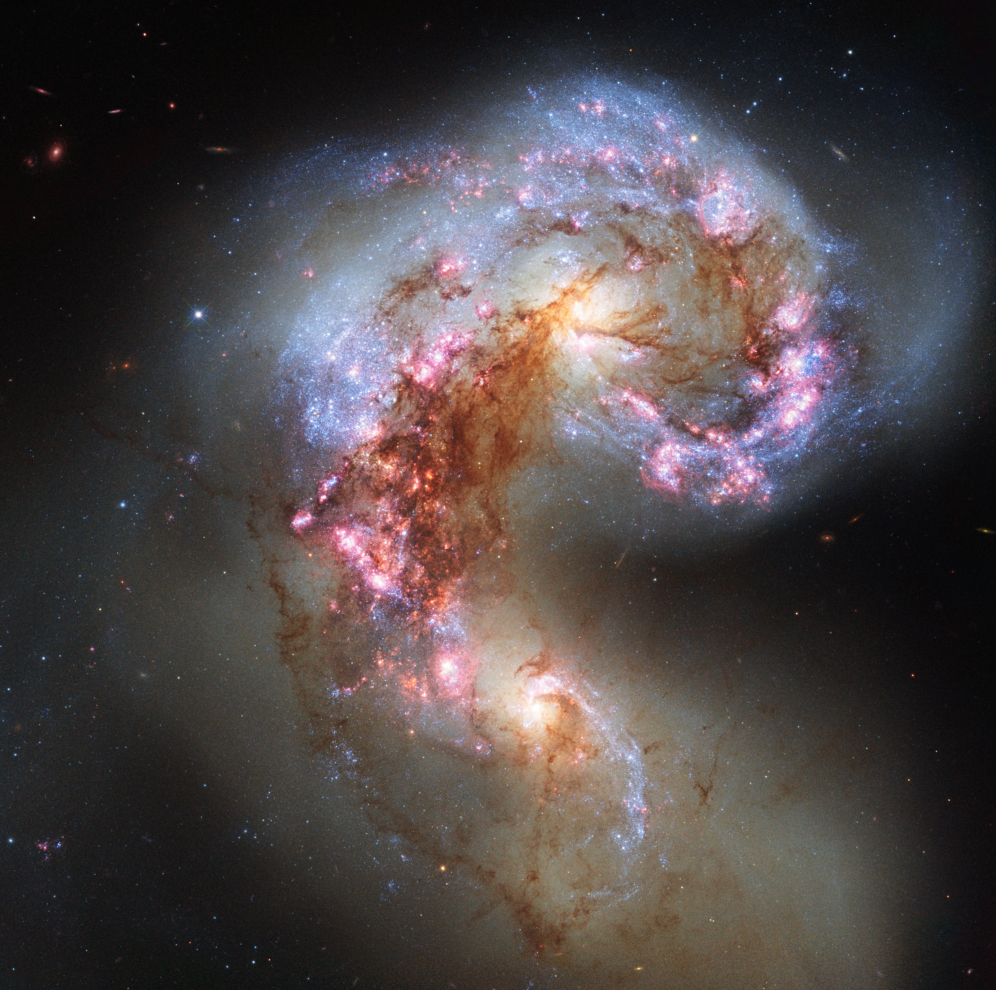 The NASA/ESA Hubble Space Telescope has snapped the best ever image of the Antennae Galaxies. Hubble has released images of these stunning galaxies twice before, once using observations from its Wide Field and Planetary Camera 2 (WFPC2) in 1997, and again in 2006 from the Advanced Camera for Surveys (ACS). Each of Hubble’s images of the Antennae Galaxies has been better than the last, due to upgrades made during the famous servicing missions, the last of which took place in 2009. The galaxies — also known as NGC 4038 and NGC 4039 — are locked in a deadly embrace. Once normal, sedate spiral galaxies like the Milky Way, the pair have spent the past few hundred million years sparring with one another. This clash is so violent that stars have been ripped from their host galaxies to form a streaming arc between the two. In wide-field images of the pair the reason for their name becomes clear — far-flung stars and streamers of gas stretch out into space, creating long tidal tails reminiscent of antennae. This new image of the Antennae Galaxies shows obvious signs of chaos. Clouds of gas are seen in bright pink and red, surrounding the bright flashes of blue star-forming regions — some of which are partially obscured by dark patches of dust. The rate of star formation is so high that the Antennae Galaxies are said to be in a state of starburst, a period in which all of the gas within the galaxies is being used to form stars. This cannot last forever and neither can the separate galaxies; eventually the nuclei will coalesce, and the galaxies will begin their retirement together as one large elliptical galaxy. This image uses visible and near-infrared observations from Hubble’s Wide Field Camera 3 (WFC3), along with some of the previously-released observations from Hubble’s Advanced Camera for Surveys (ACS).